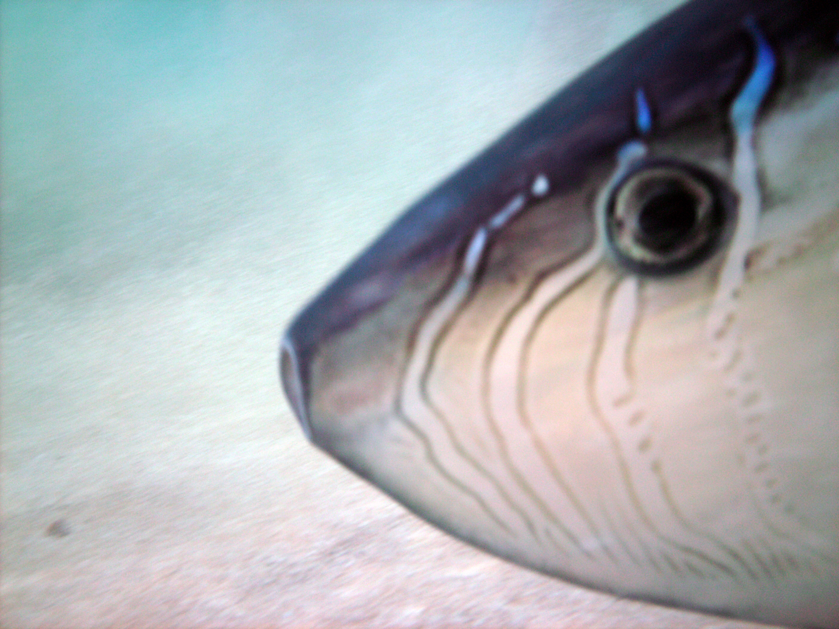 Slender sunfish - photographed in Napili Bay, Maui, Hawaii, USA